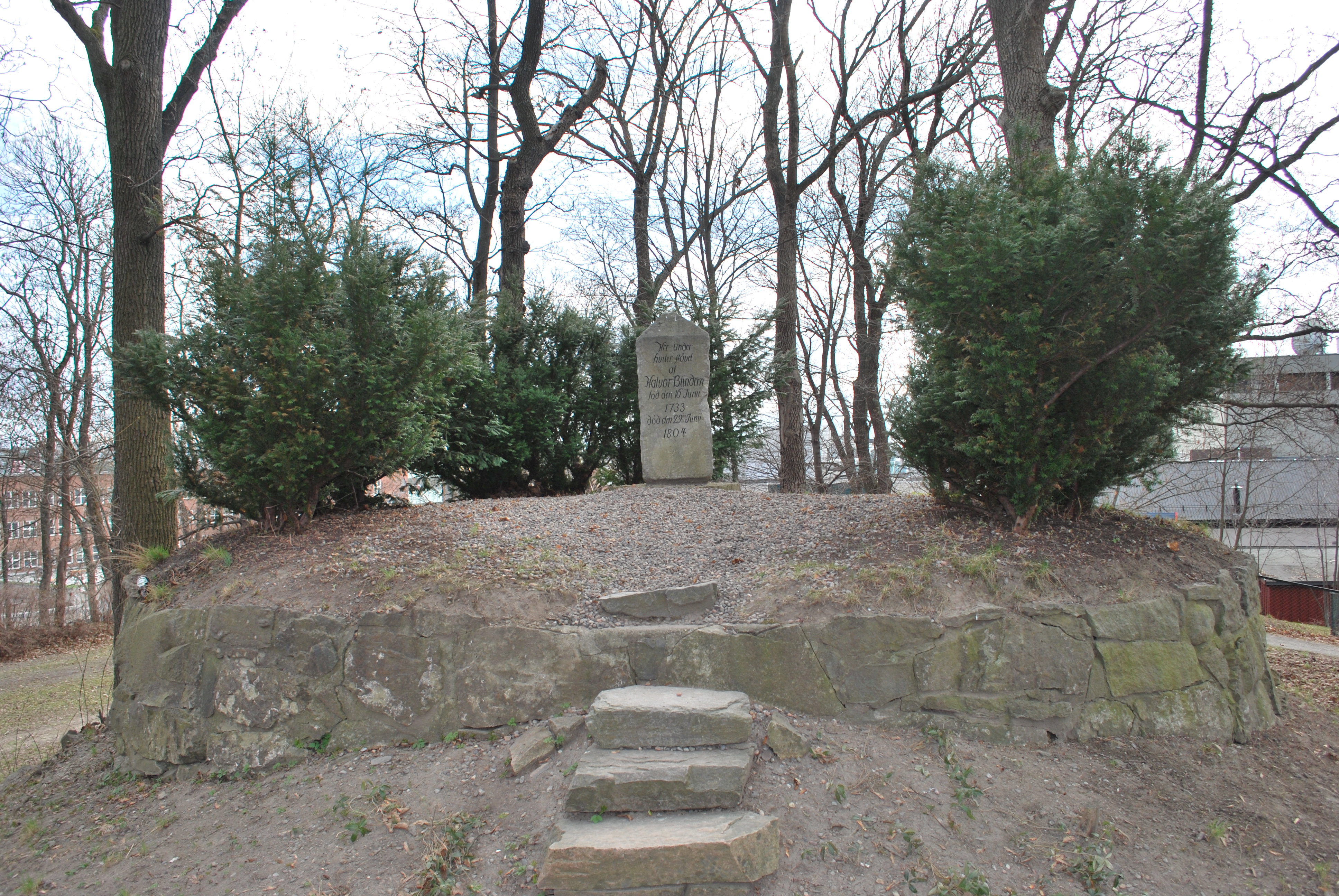 Halvor Blinderens gravestone, north side. Halvor Blinderens plass (square), Blindern, Oslo